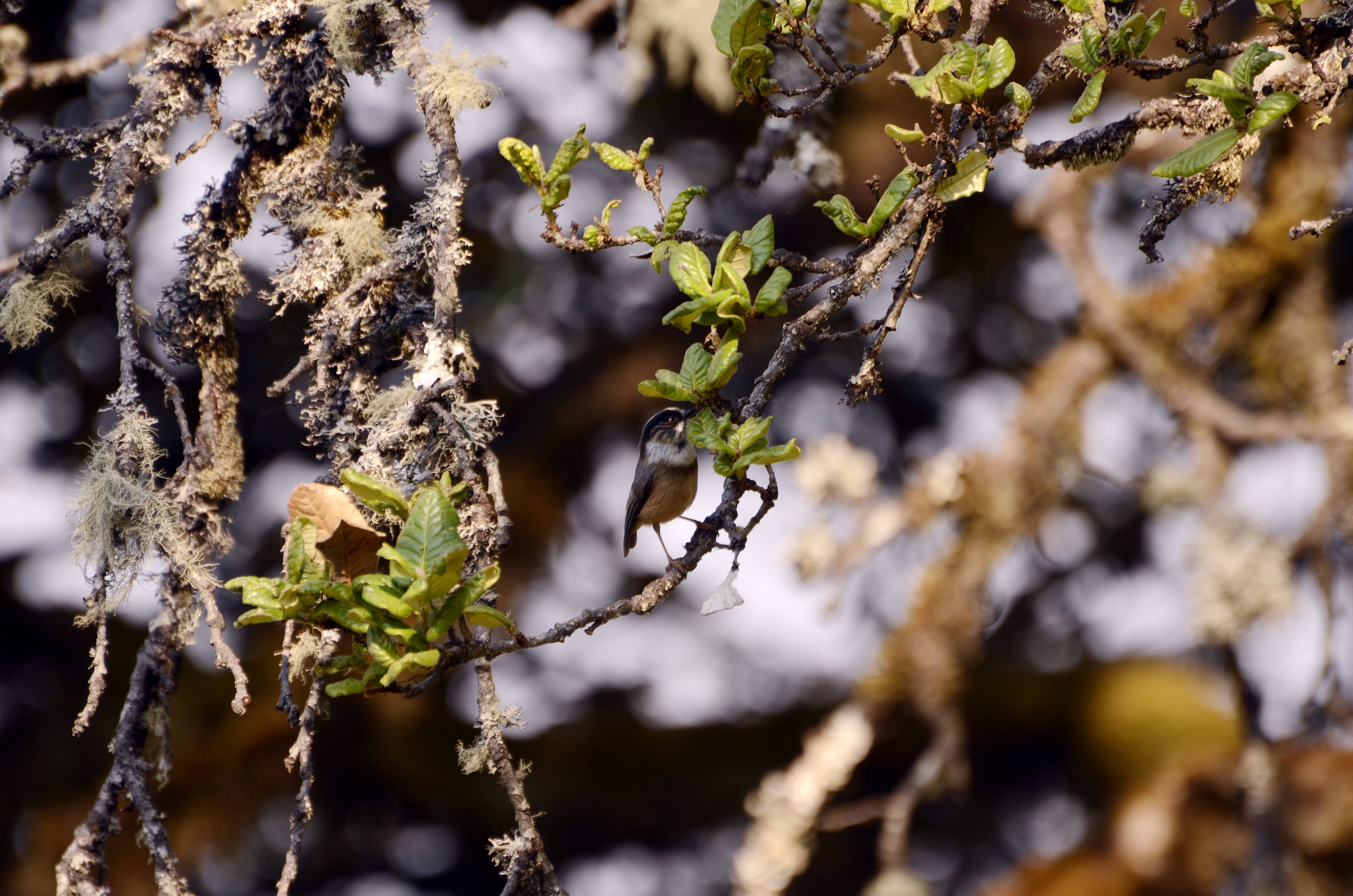 White-throated bushtit (Aegithalos niveogularis) in Kedarnath Wildlife Sanctuary.